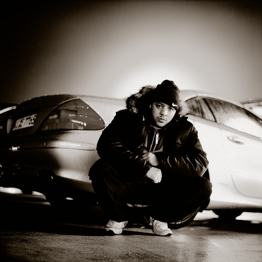 no driving licence, no car. Berlin 2002